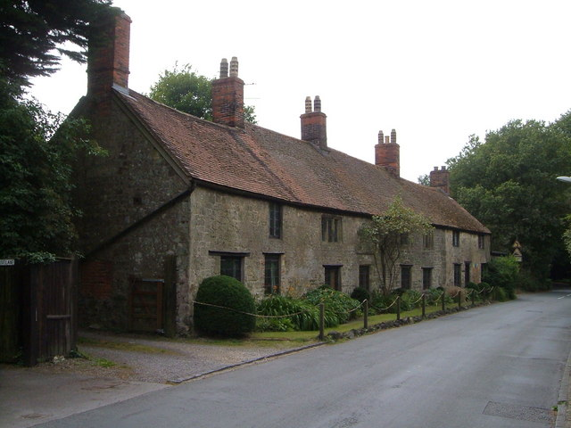 Edwardstowe, Shaftesbury. A row of cottages on Bimport, Shaftesbury